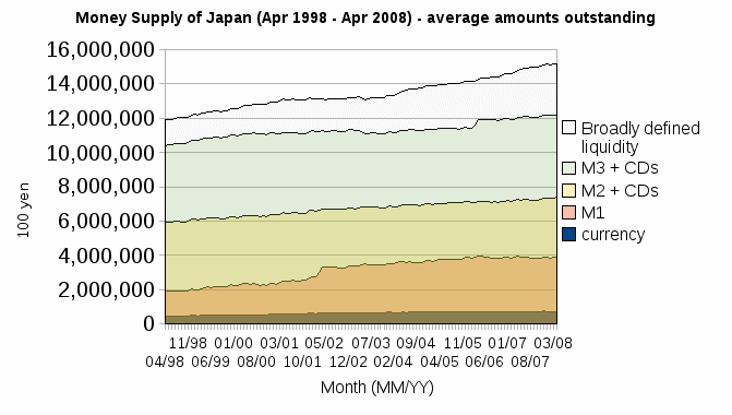 The money supply (monetary aggregates) of japan from April 1998 through April 2008. Average amounts outstanding. Data obtained from: Select the ("Reference) Money Stock (from April 1998 through April 2008)" file which is at